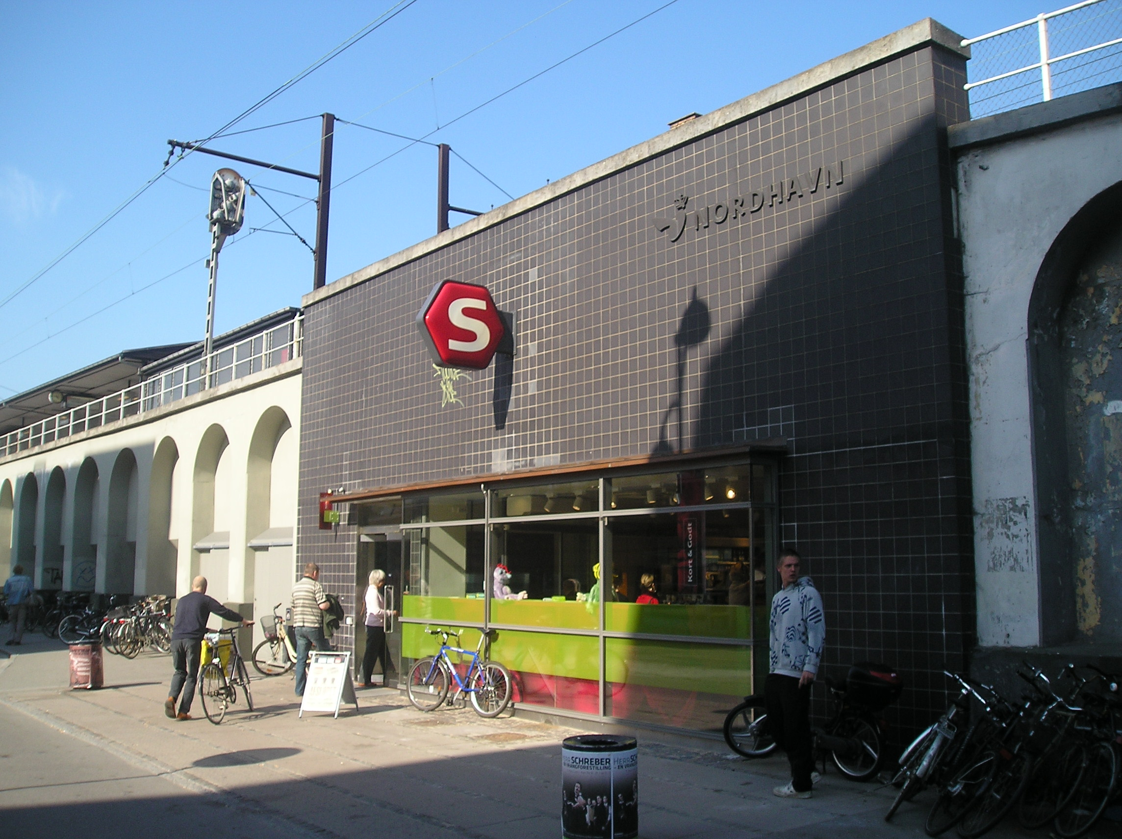 Copenhagen S-train station Nordhavn.